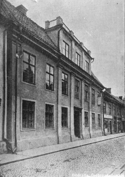 The "Peace house" in Örebro, Sweden